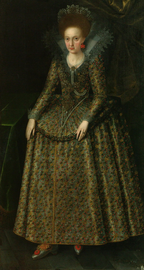 Portrait of Elisabeth Sophie Hohenzollern (1589-1629), wife of Janusz Radziwiłł.